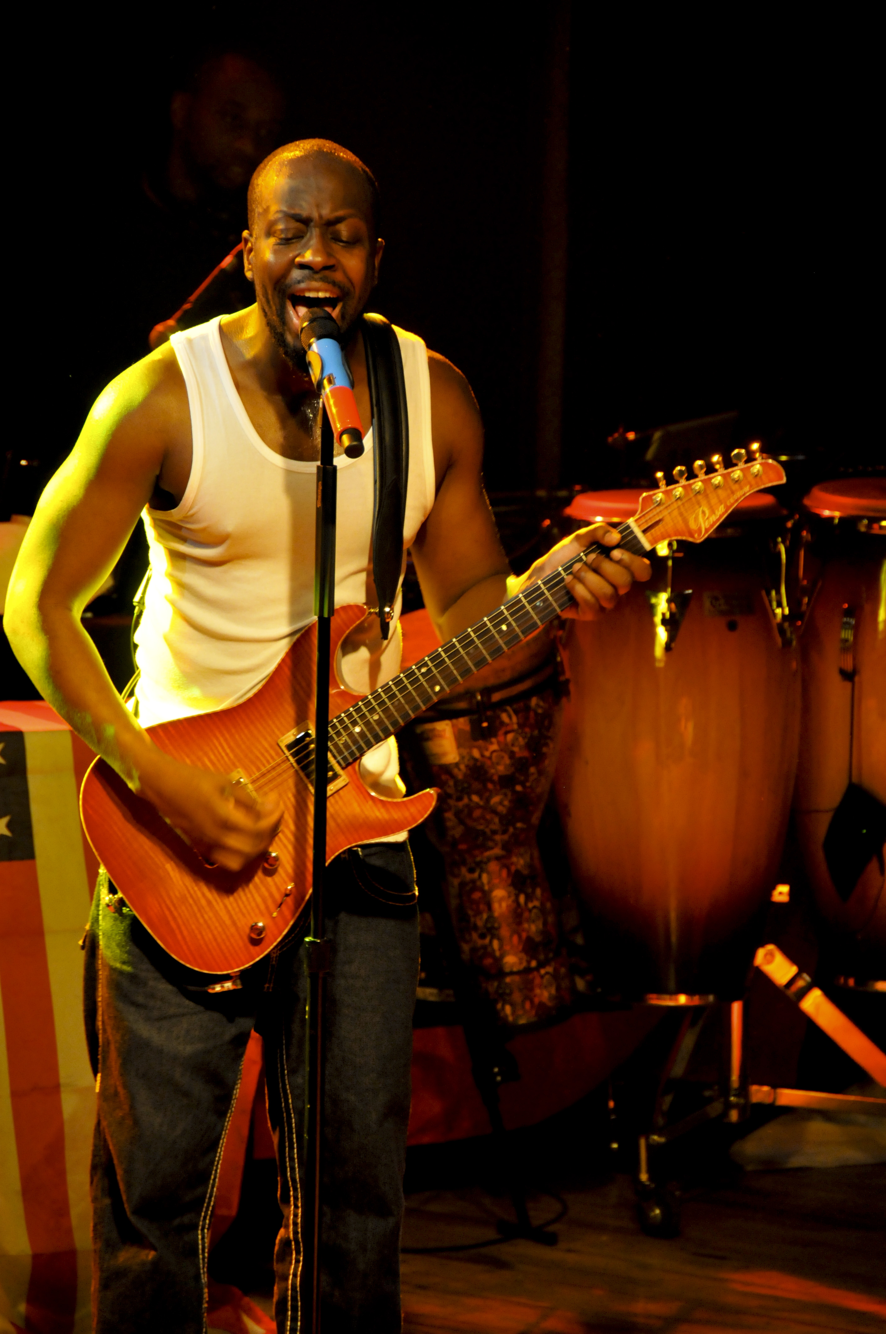 Wyclef performing at the Mezzanine in San Francisco to a full house, July 2008